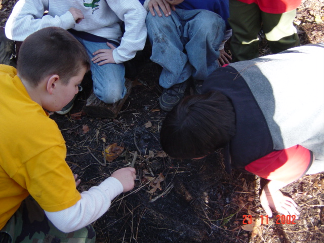 Lighting a fire for a Scoutcraft competition.